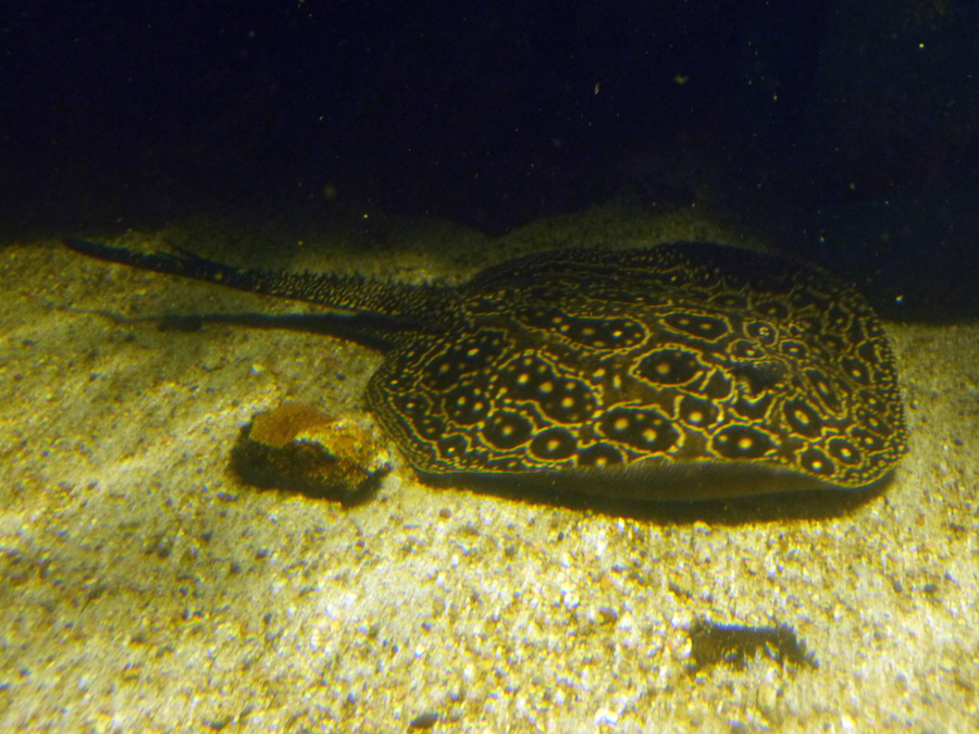 Potamotrygon jabuti (pearl stingray/pearl river stingray)